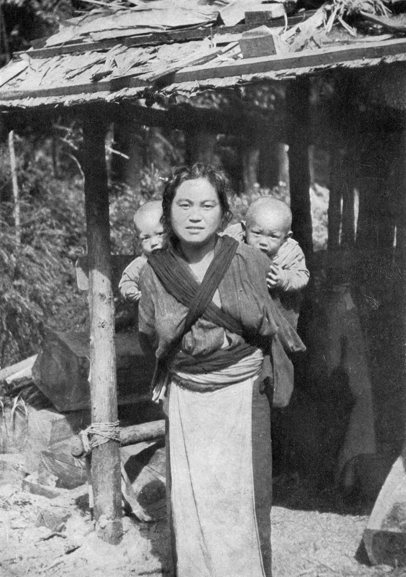 A MOTHER OF WARRIORS: JAPAN. Stoicism is more than a tenet with the Japanese; it is almost a religion, and the mother of these babes, if the hand of death were laid upon them, could with calm fortitude relate her loss to a stranger without the display of grief, for it is a cardinal principle of her politeness that she should never burden another with her woes. But beneath this cross-barred cradle of cloth there beats the universal mother heart—universal in its high hopes for her children's future and in its eager joy at personal sacrifice for their happiness.